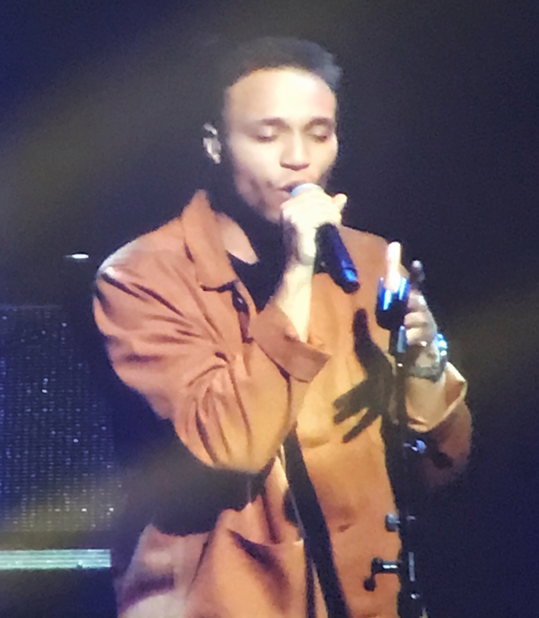 Alexander Oscar performing